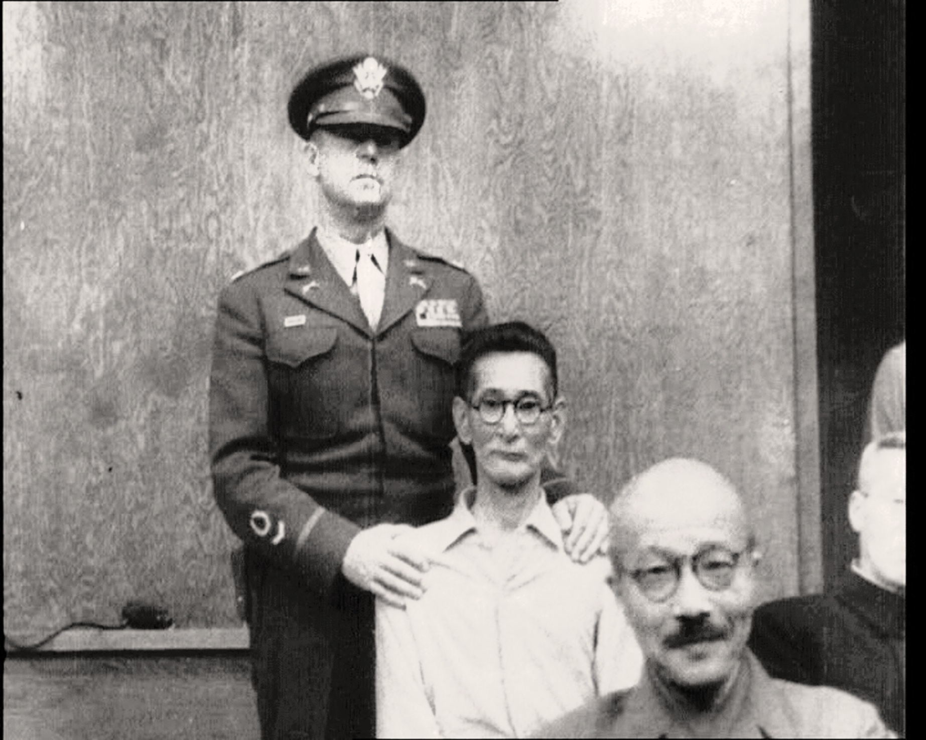 大川周明 Shūmei Ōkawa (1886–1957) in court